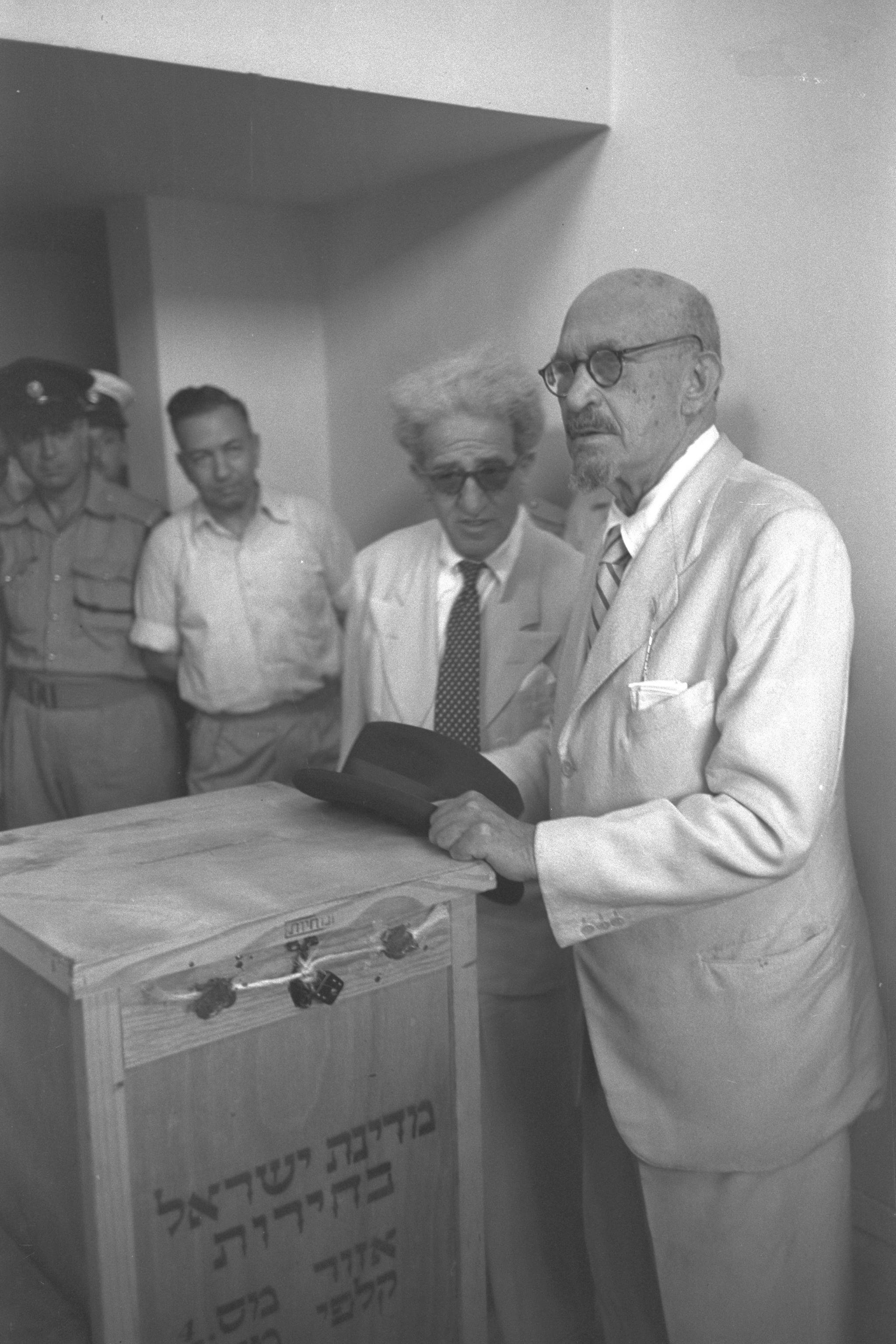 Israeli President Chaim Weizmann voting in the elections for Knesset, 1951